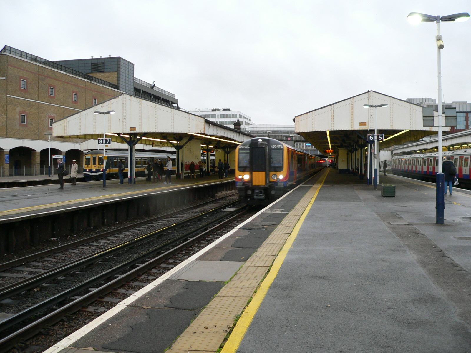 A general view of Wimbledon station in south London. In the centre of the image is a South West Trains Class 450 third rail electric multiple unit (EMU). On the left is a Thameslink Class 319 dual-power EMU and on the right is a London Underground C stock.